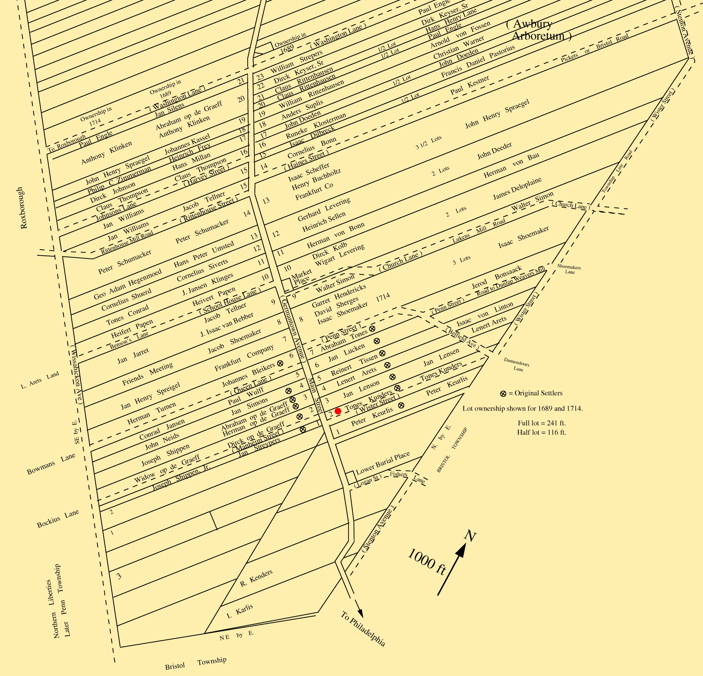 Plan of lots in Germantown, PA in 1689, showing lot owners in 1689 and 1714. Lot of Thones Kunders (#2) marked with red dot. Dashed lines show modern roads. Author: Robert Smith. Image referred to by article on The 1688 Germantown Quaker Petition Against Slavery. Redrawn from original map in archive of Mennonite Meetinghouse, 6133 Germantown Ave.